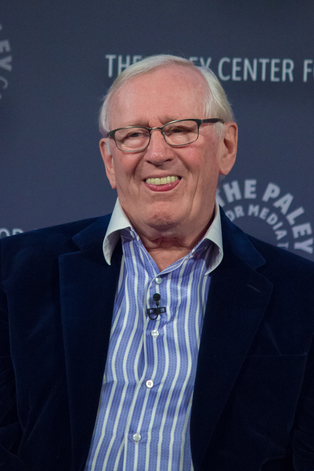 Actor Len Cariou at the New York PaleyFest 2014 for the TV show "Blue Bloods"